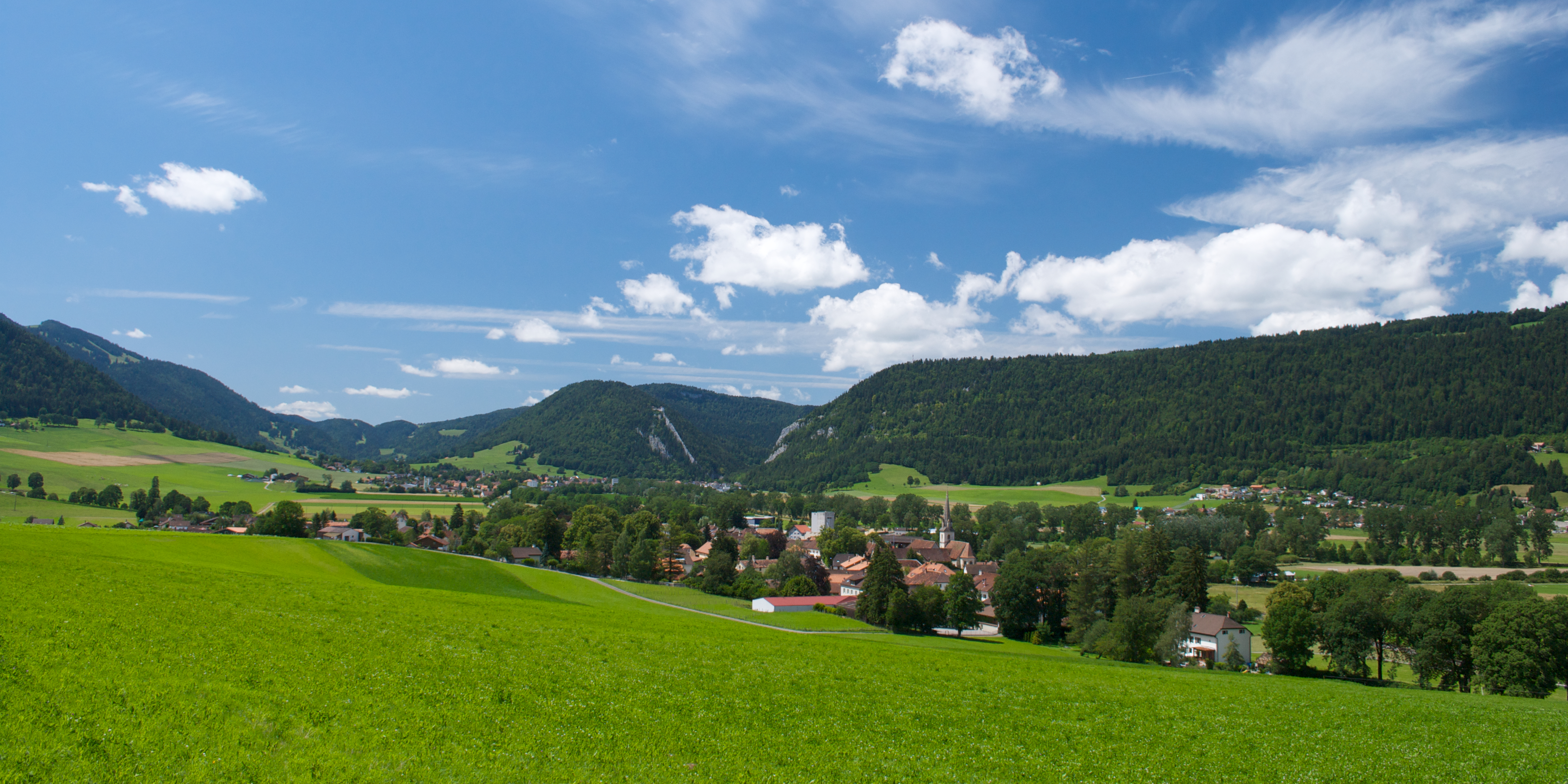 A view of the val-de-travers